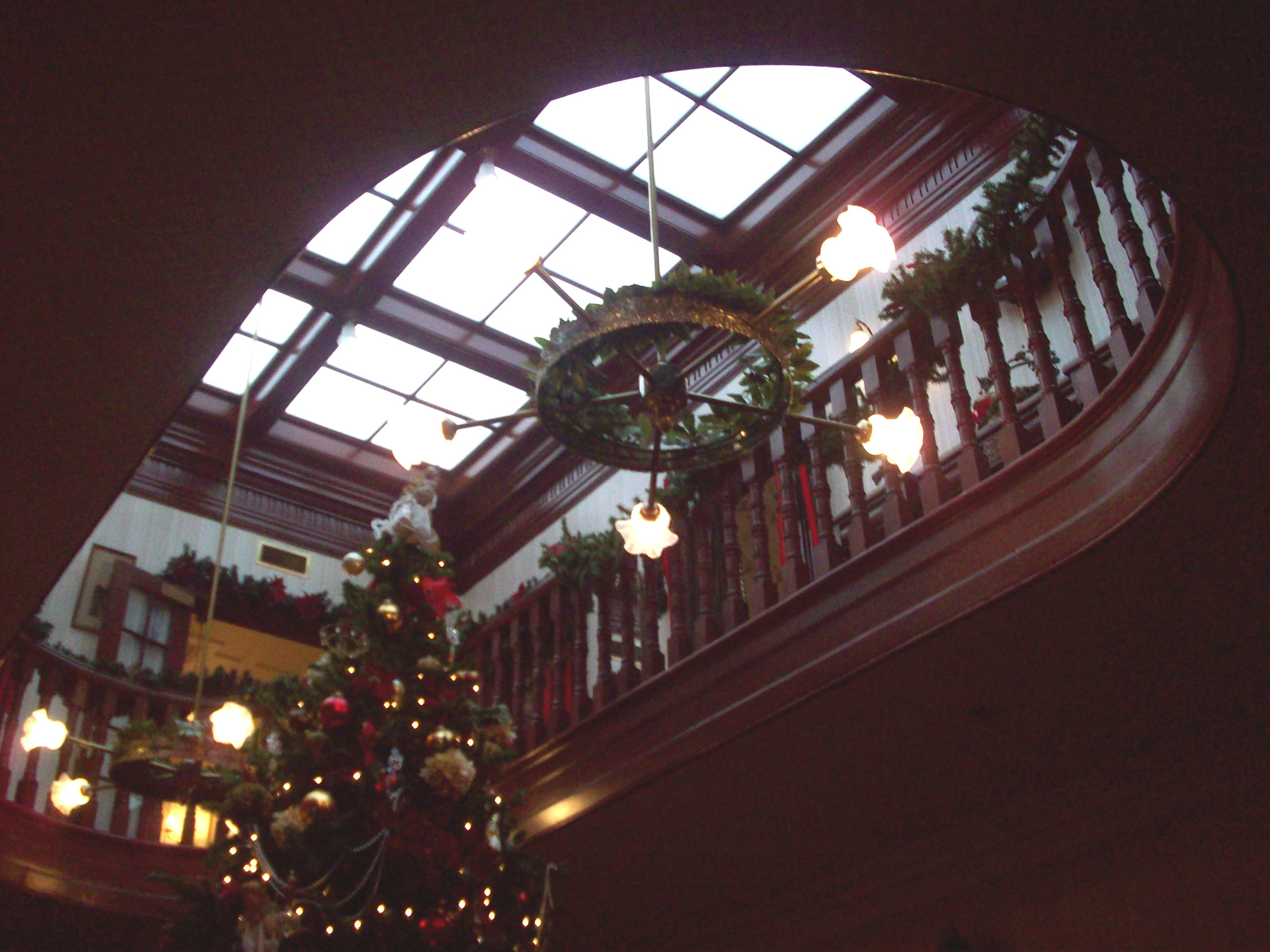 Government House (Regina) hallway ceiling on New Year's Day